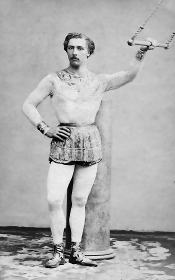 An image of Jules Léotard in the garment that bears his name. Jules Léotard - The Daring Young man on the Flying Trapeze. Jules Léotard, The Daring Young Man on the Flying Trapeze, performed his aerial act at the Alhambra. Jules Léotard, inventor of the flying trapeze.===Notes on current image=== I took the image from the original and adjusted the contrast, removed the spots, blurred the back ground and to some extent Jules himself. I hope this is an improvement. Iain 07:54, 29 June 2006 (UTC) Notes on older image Note: Image processing operations concentrated on increasing detail and contrast in the tonal range occupied by the leotard, whilst attempting to keep the overall tonal balance of the image reasonable. The image was then scaled down to 50% of original size using bicubic interpolation, to average out a global increase in noise and coarse quantization caused by repeated passes of unsharp masking and curve filtering.